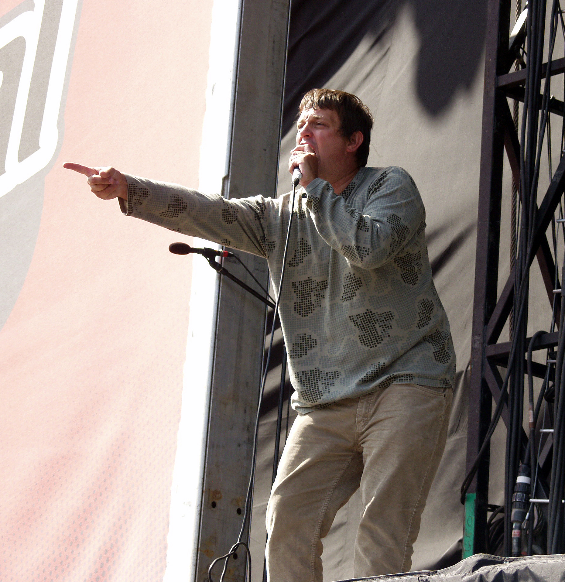 Tom Hingley of Inspiral Carpets, performing at the V Festival 2003